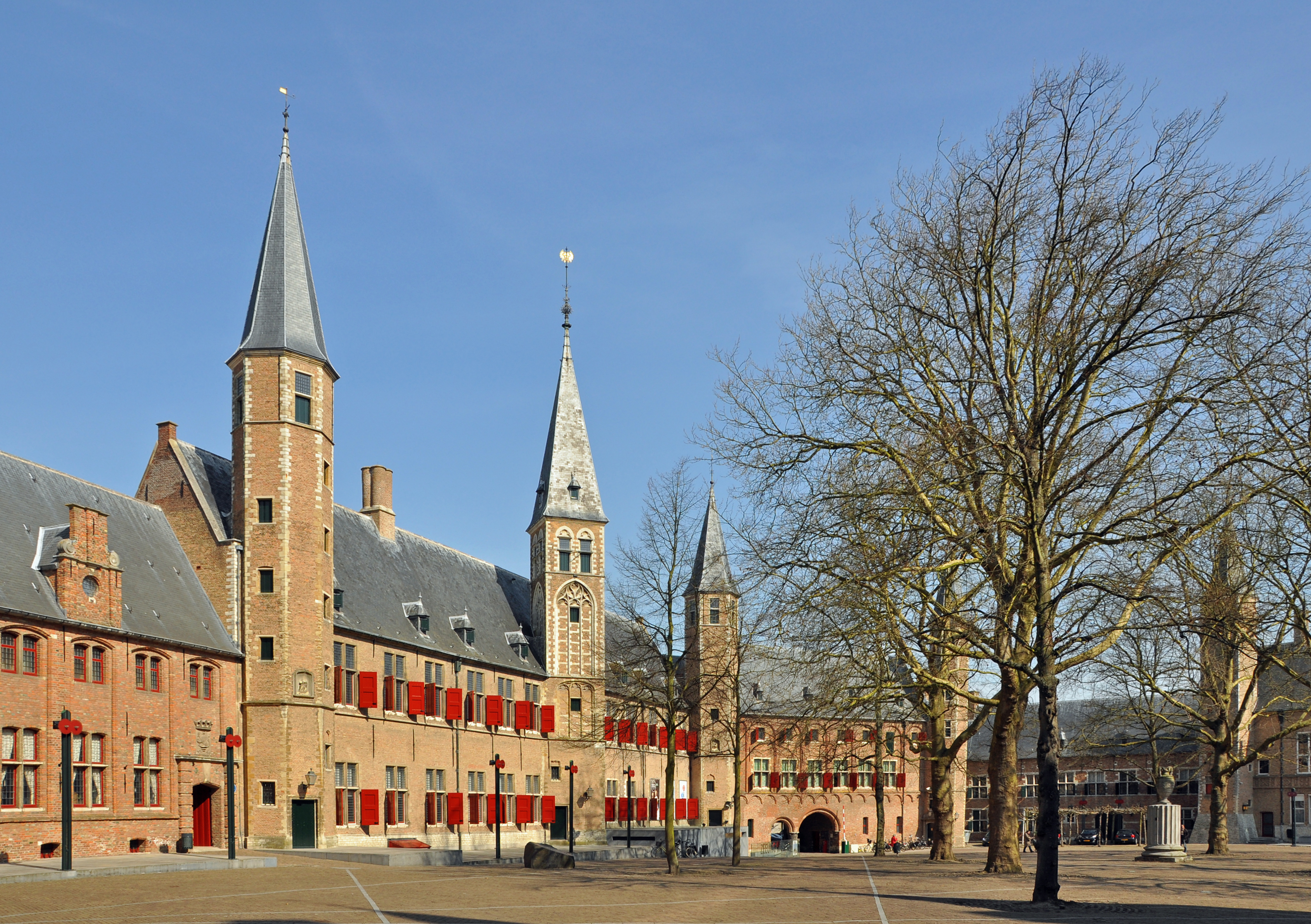 Middelburg (province of Zeeland, the Netherlands): the former abbey